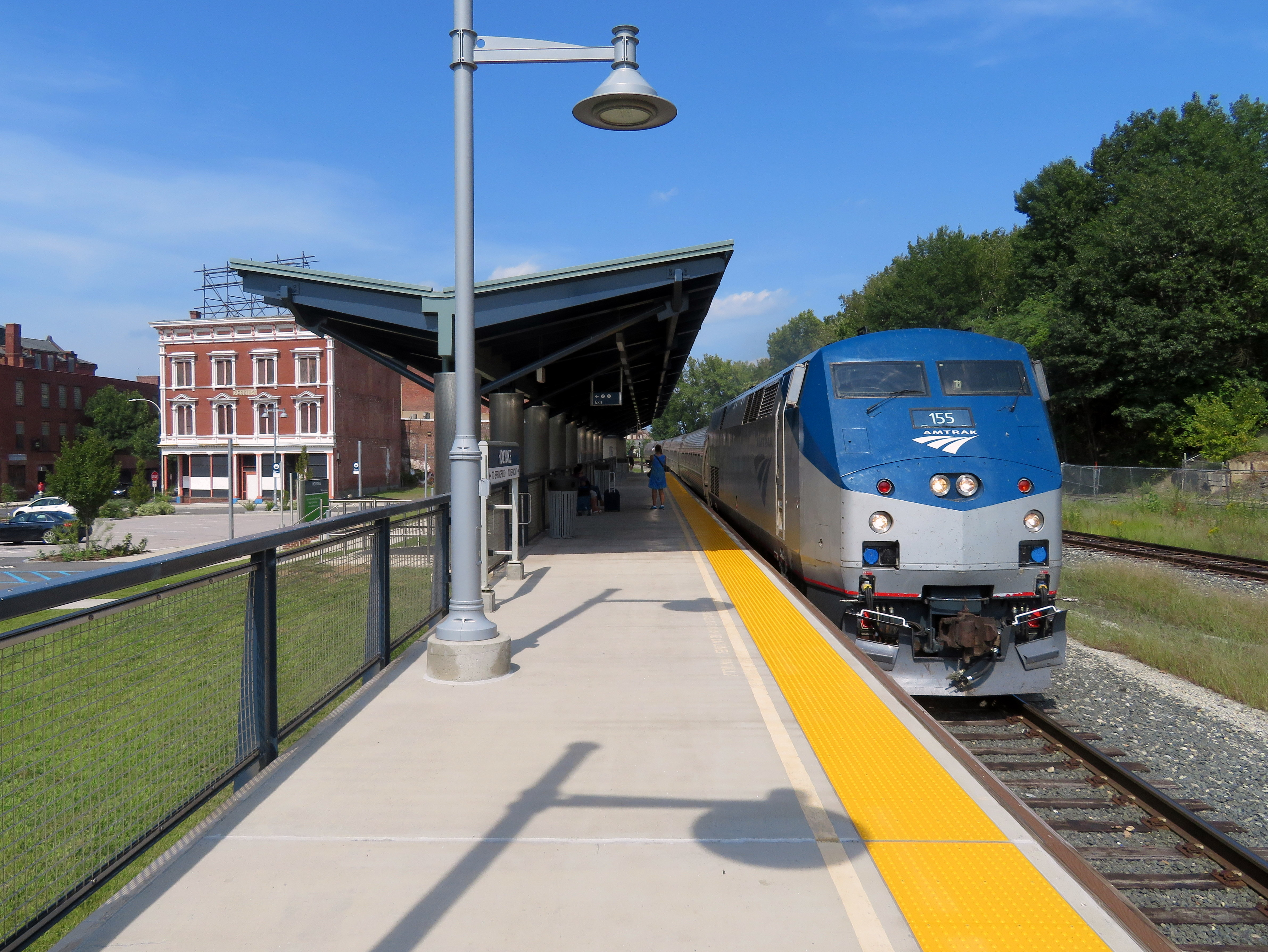 The southbound Vermonter arriving at Holyoke station in August 2018